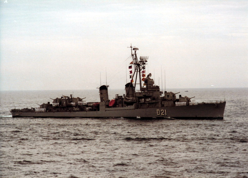 The Spanish destroyer Lepanto (D-21) underway at sea, circa in the 1970s.